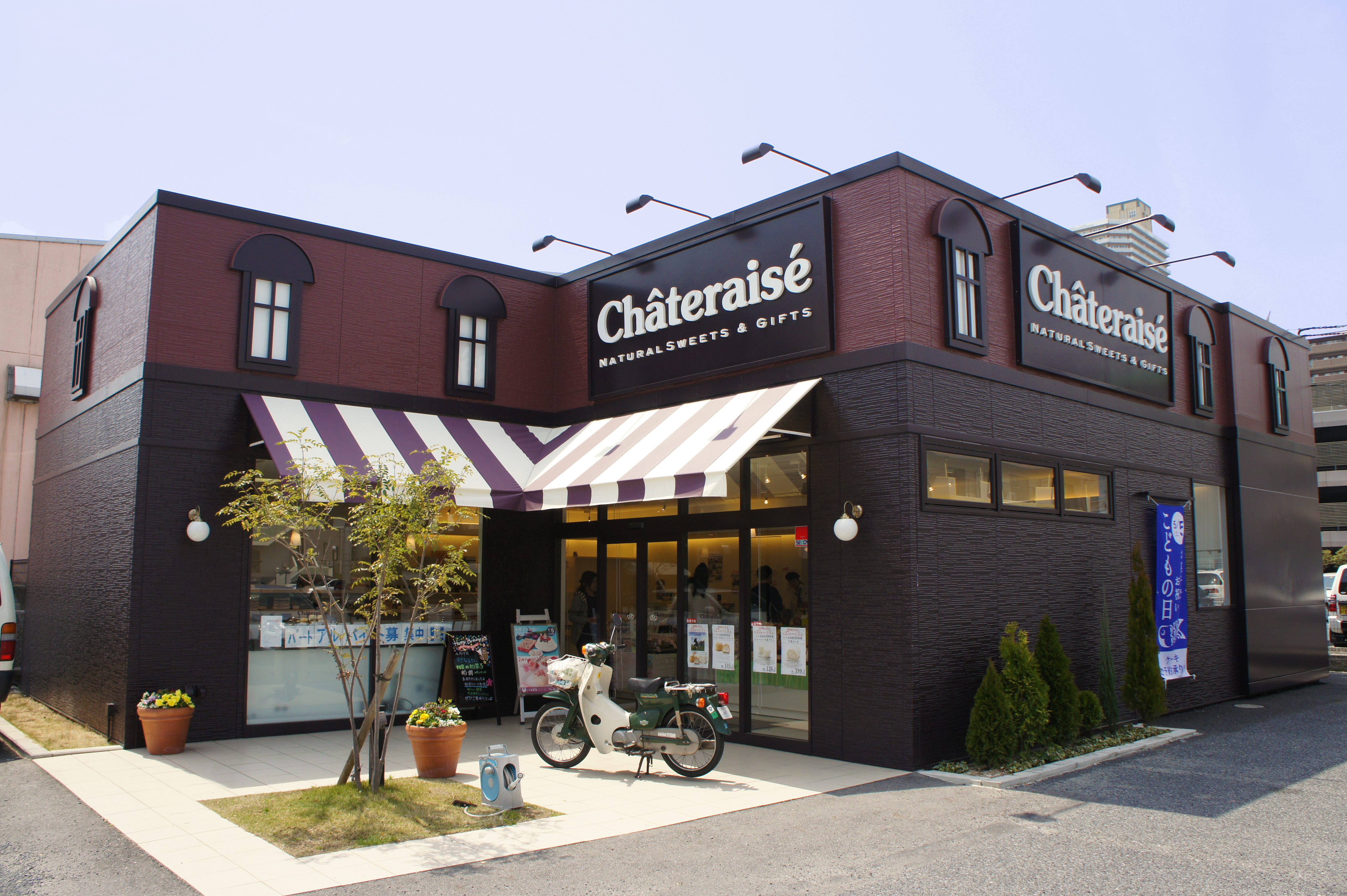 Chateraise Nishi-Otsu, 2-9 Matsuyama-cho Otsu-City Shiga Japan.